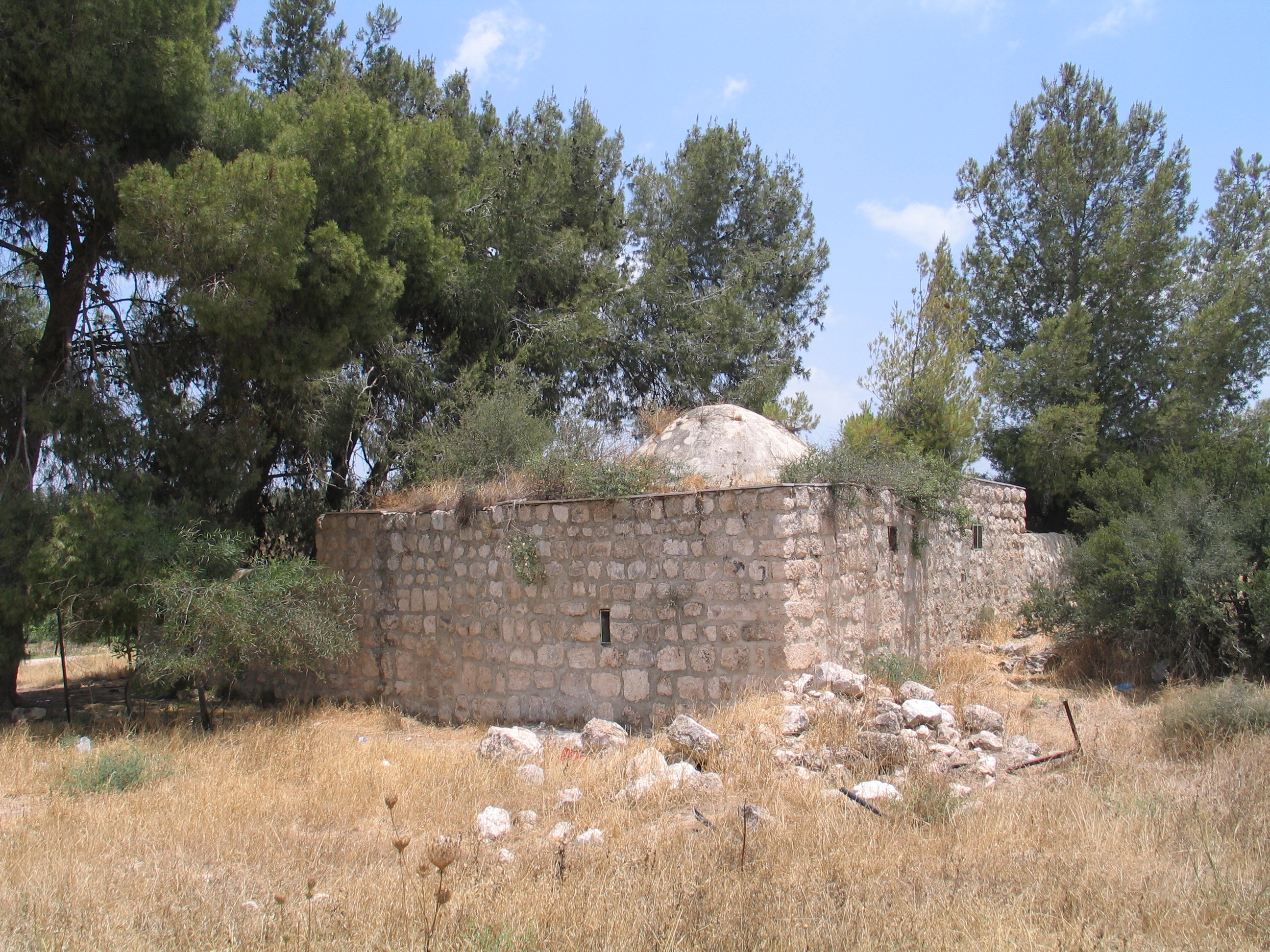 Beit Guvrin, Israel.